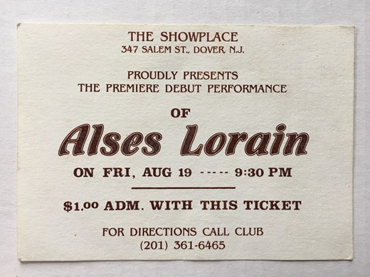 invitation to first concert of "Alses Loraine" (later called "Alsace Lorraine,", then "Saraya"